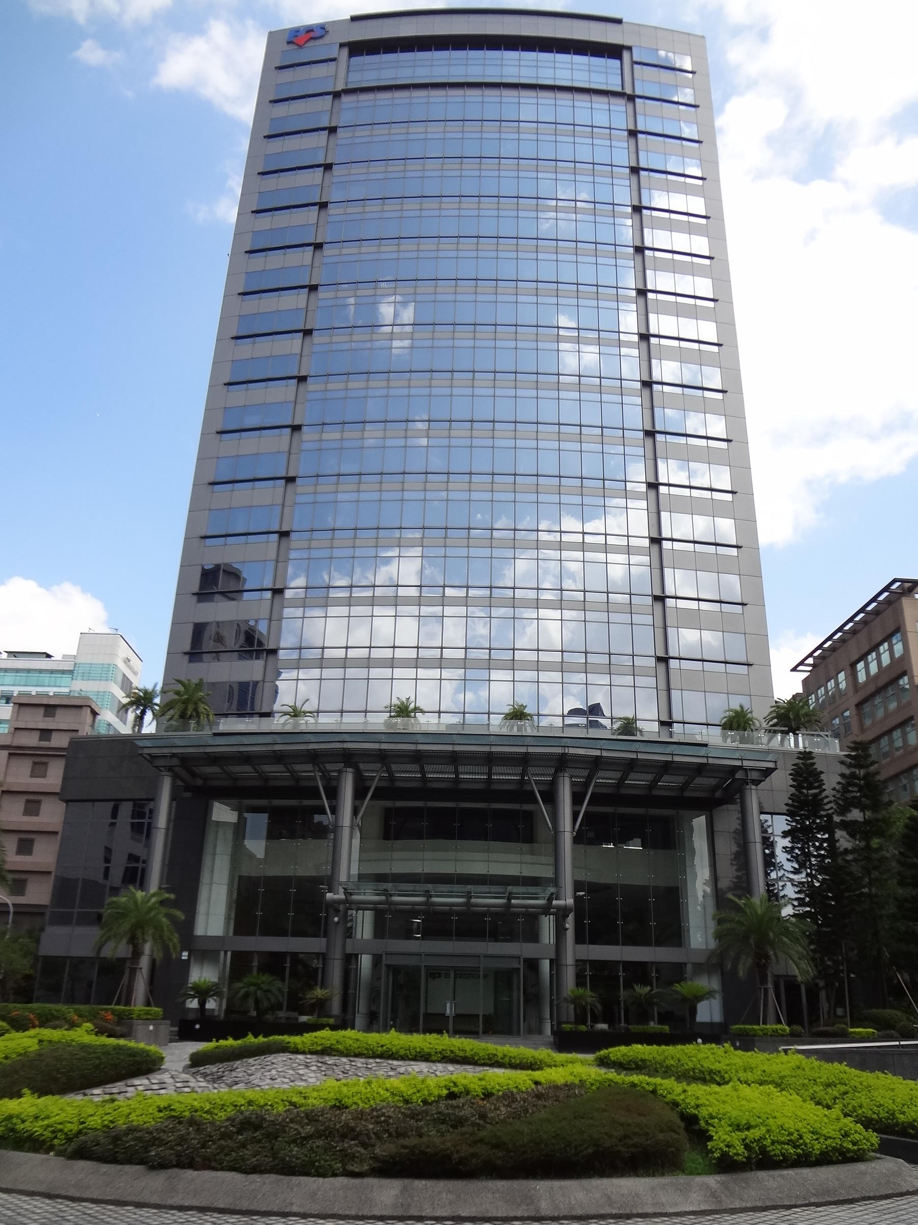 Photograph of the Headquarter building of Elitegroup Computer Systems.